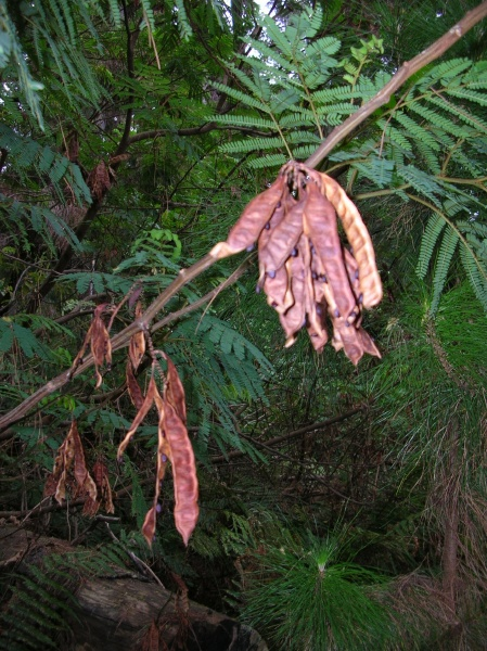 Maui, Hawaii